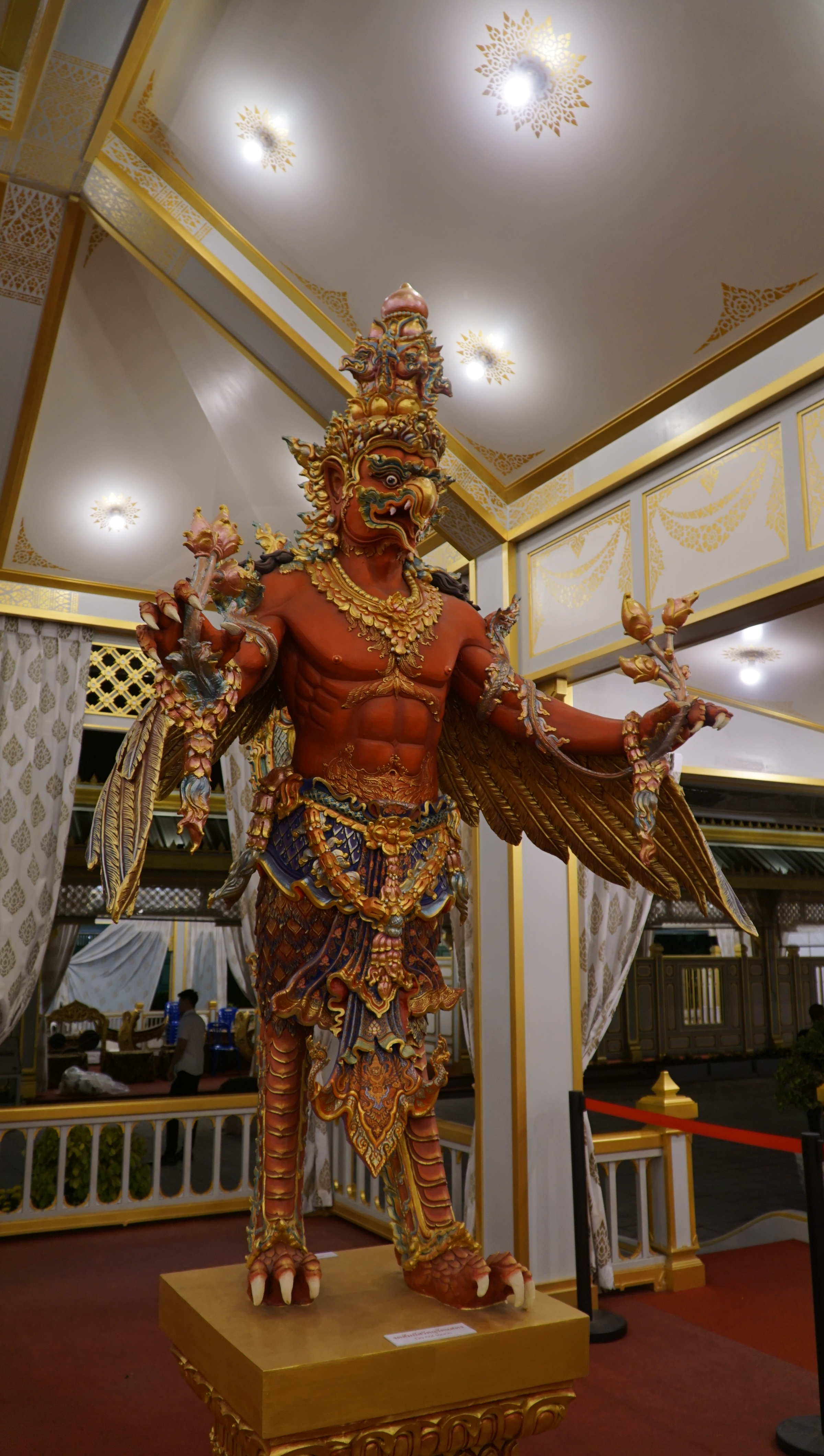 Garuda at the funeral of Bhumibol Adulyadej